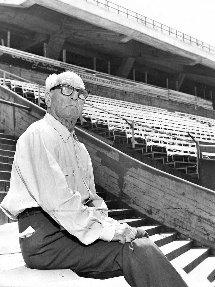 José Amalfitani, president of CA Velez Sarsfield